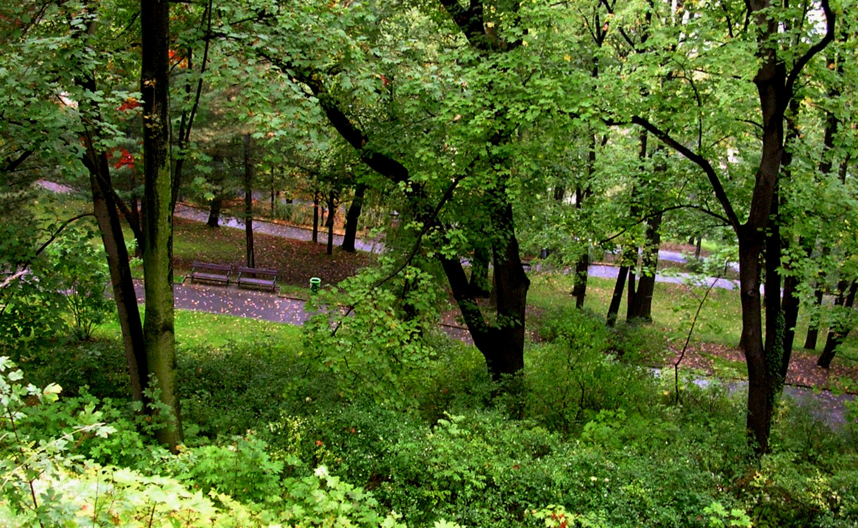 Prague-Smíchov. The Czech Republic. Česky: Praha, Smíchov, park Santoška, pohled z ulice Nad Santoškou. - OpenStreetMap(Info)